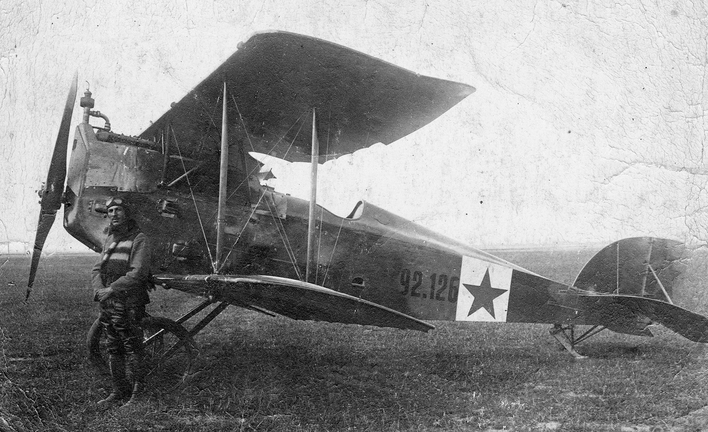 An MAG-built Aviatik D.I(MAG) with markings of the of Hungarian Soviet Republic (1919).